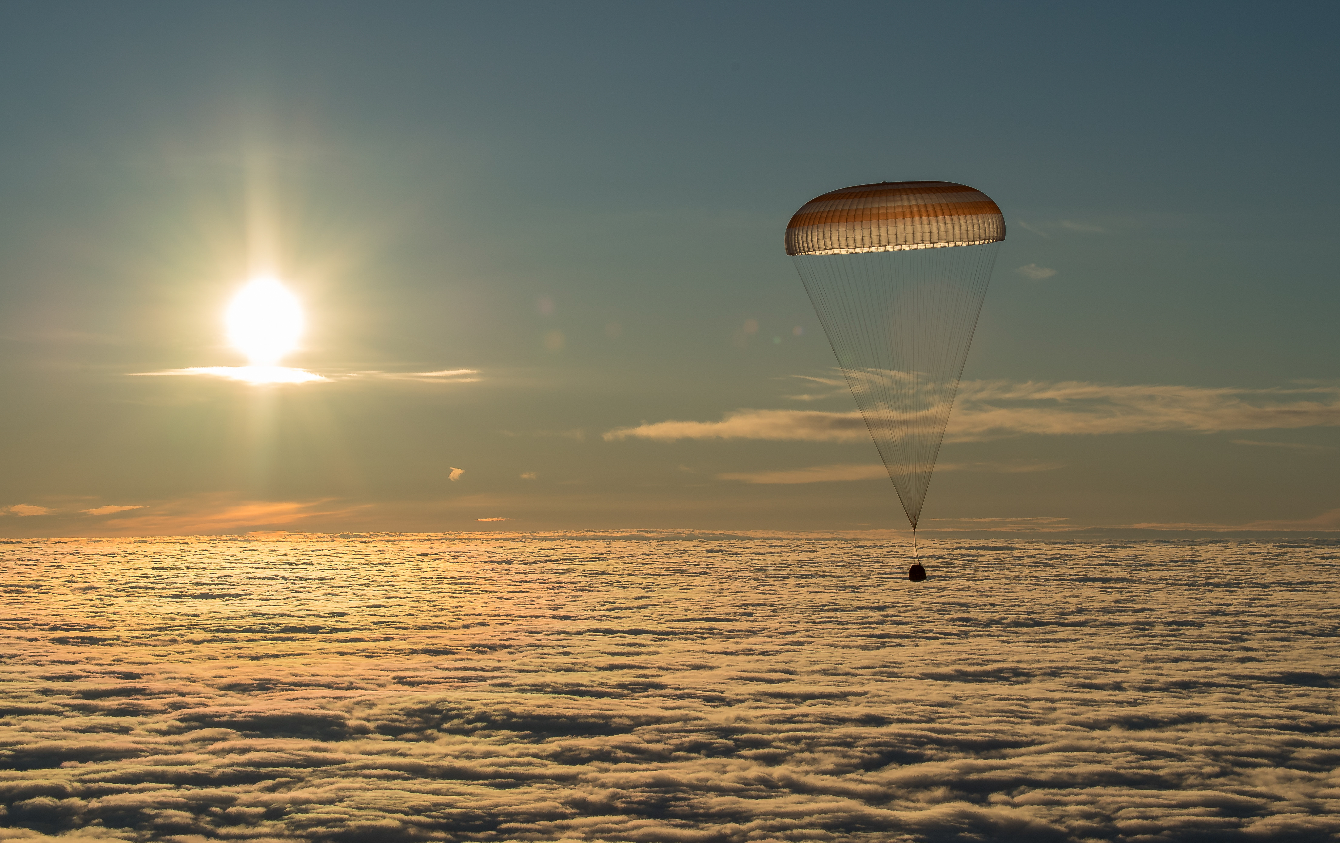 The Soyuz MS-06 spacecraft is seen as it lands with Expedition 54 crew members Joe Acaba and Mark Vande Hei of NASA and cosmonaut Alexander Misurkin near the town of Zhezkazgan, Kazakhstan on Wednesday, Feb. 28, 2018 (February 27 Eastern time.) Acaba, Vande Hei, and Misurkin are returning after 168 days in space where they served as members of the Expedition 53 and 54 crews onboard the International Space Station.